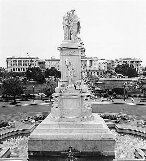 Summary Peace Monument on the grounds of the United States Capitol, Washington, D.C.. Object location38° 53′ 26″ N, 77° 00′ 44″ W Photograph by the Architect of the Capitol office. [1] Licensing This image is a work of an employee of the Architect of the Capitol, taken or made as part of that person's official duties. As a work of the U.S. federal government, all images created or made by the Architect of the Capitol are in the public domain in the United States.